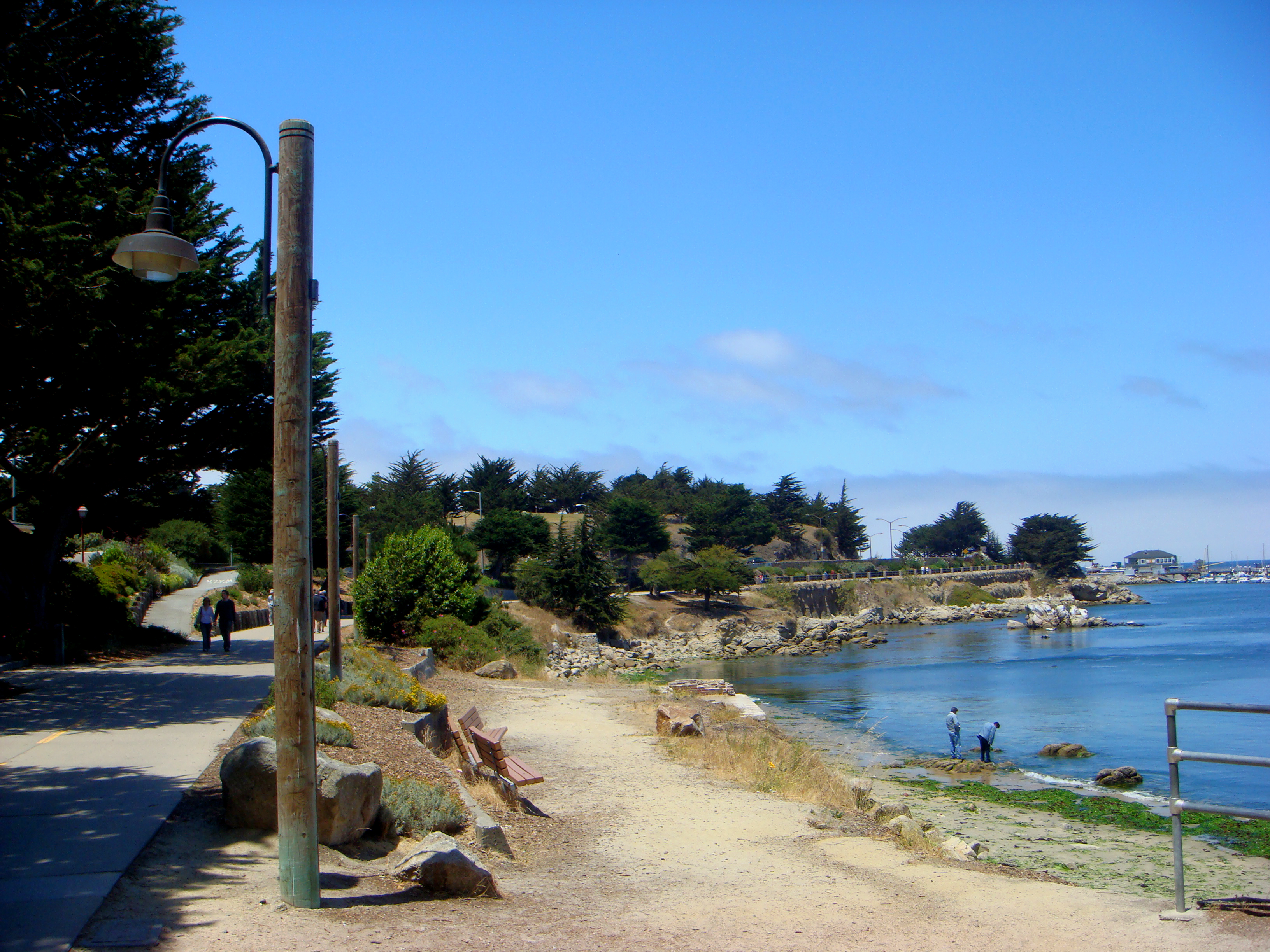 Beach walkway, Monterey